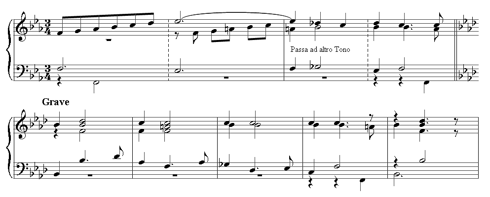 Excerpt from Passagagli sopra Fe fa ut per b by Bernardo Storace (fl. 1664): the first "transition to another tone". Typeset in Sibelius 4 by Jashiin.